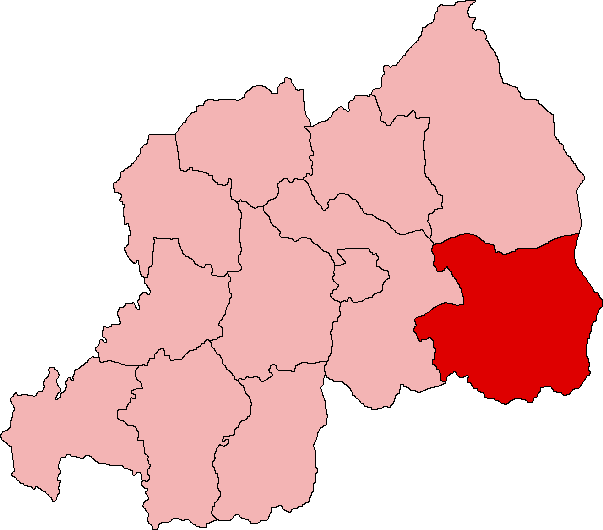 Map of Rwanda showing Kibungo Province; created with the GIMP. Made by User:Acntx.